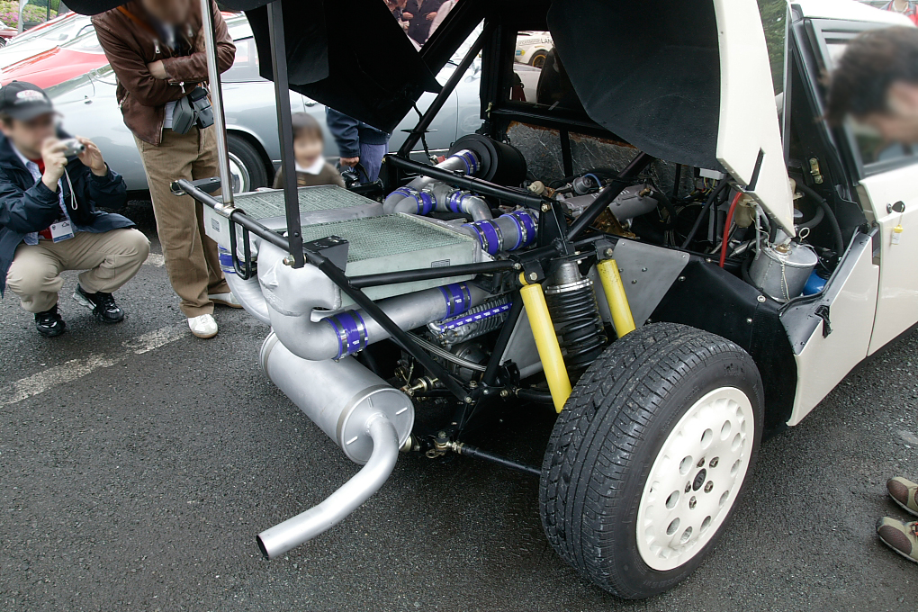 Lancia Delta S4 rear section.